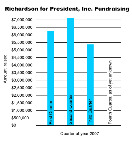 A graph depicting the fundraising efforts of the Richardson for President campaign during the first three quarters of 2007. Designed by Alexander S. Peak.